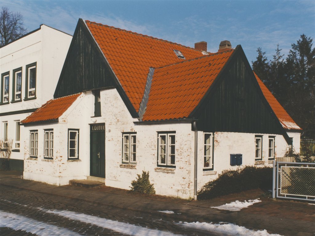 Elmshorn (Germany), House Sandberg 66 , photo 1999